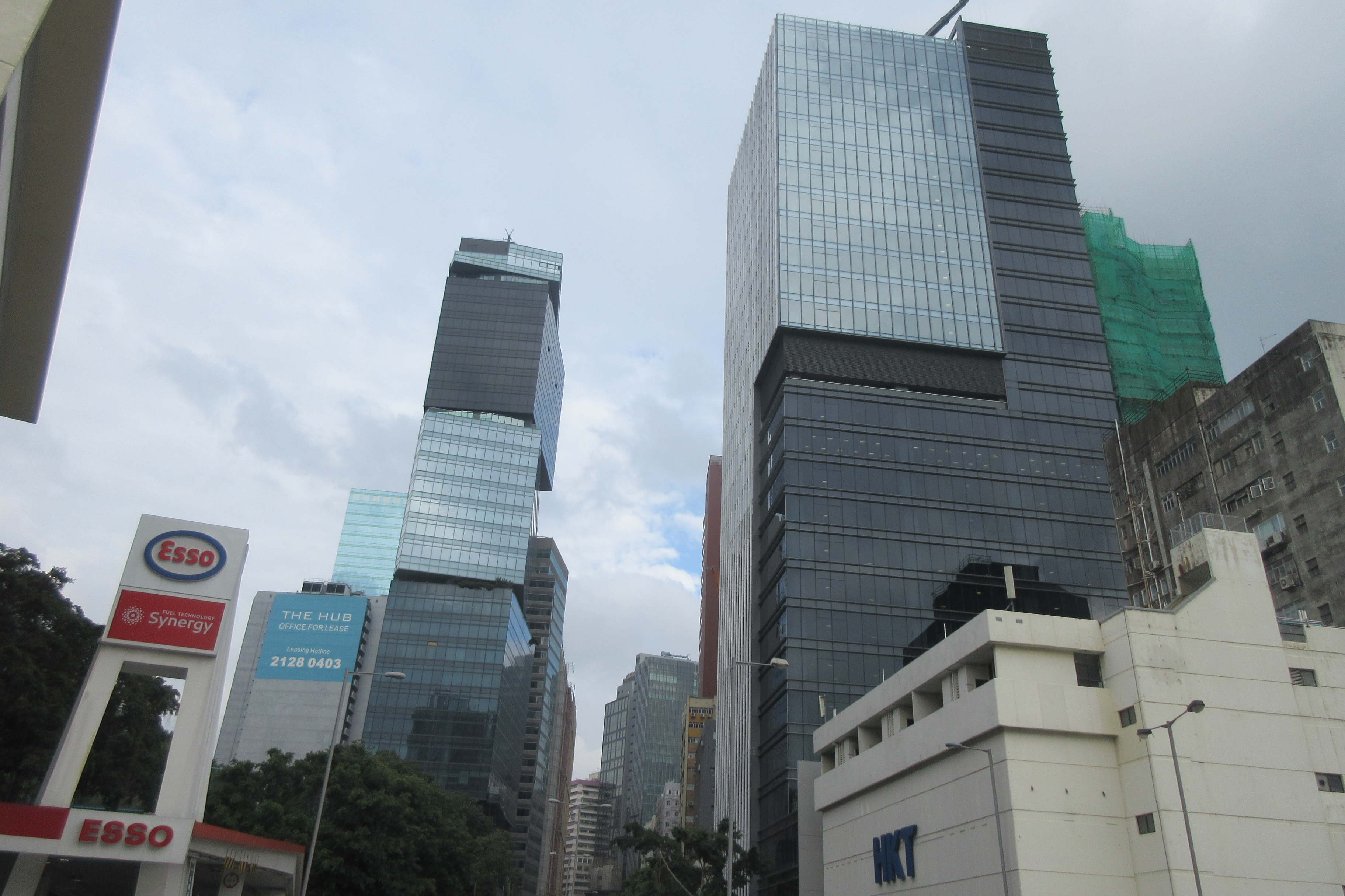 HK 黃竹坑道 Wong Chuk Hang Road in October 2018